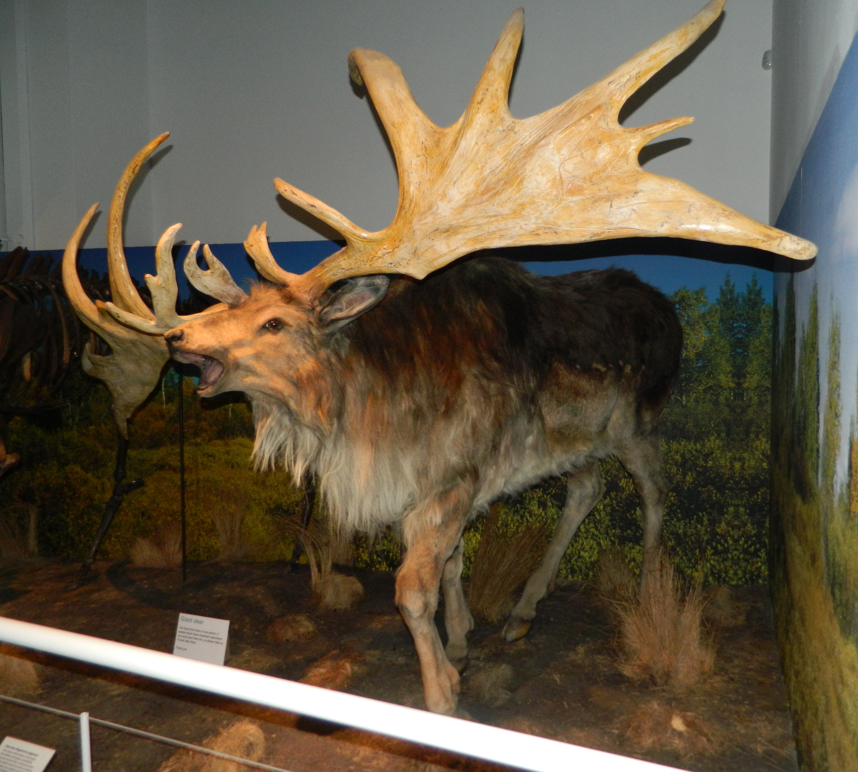 Giant deer (Megaloceros giganteus) reconstruction, Ulster Museum